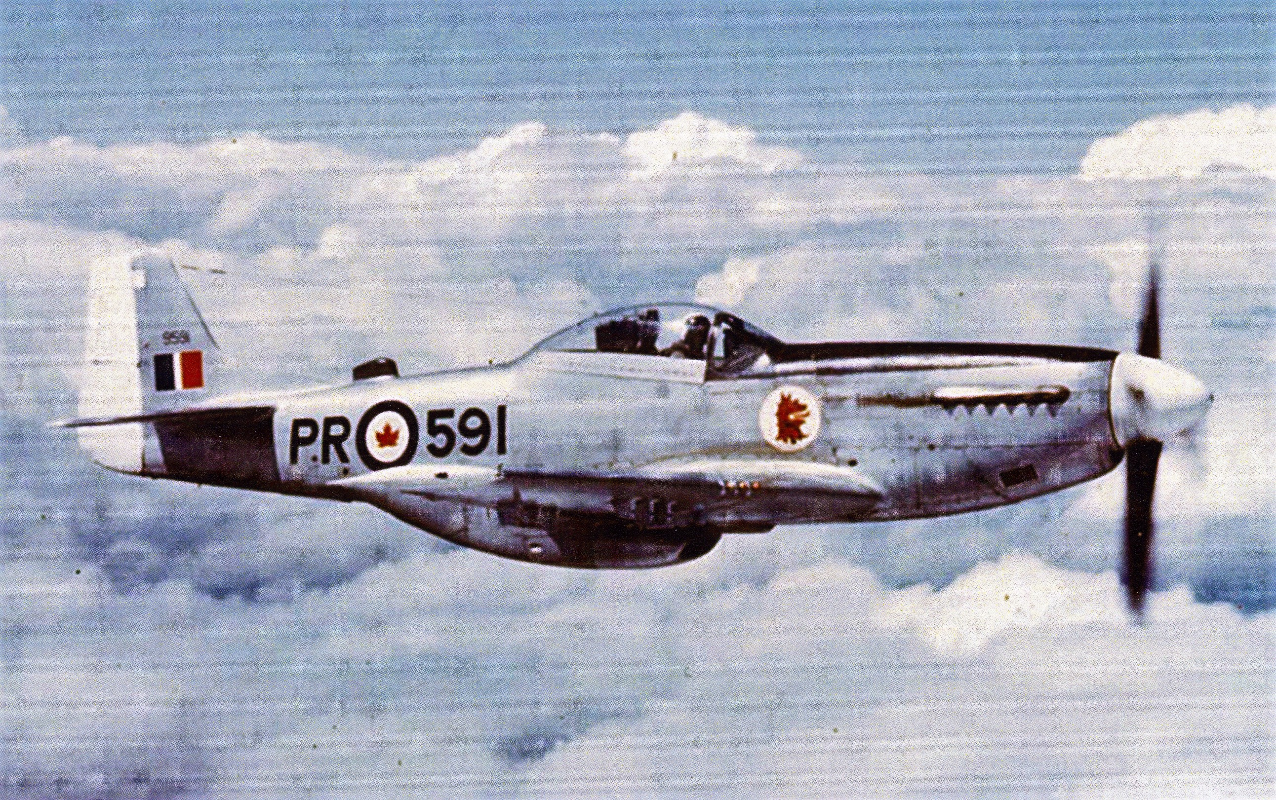 F/L Lynn Garrison 403 Squadron Mustang 9591 22 Feb 1957